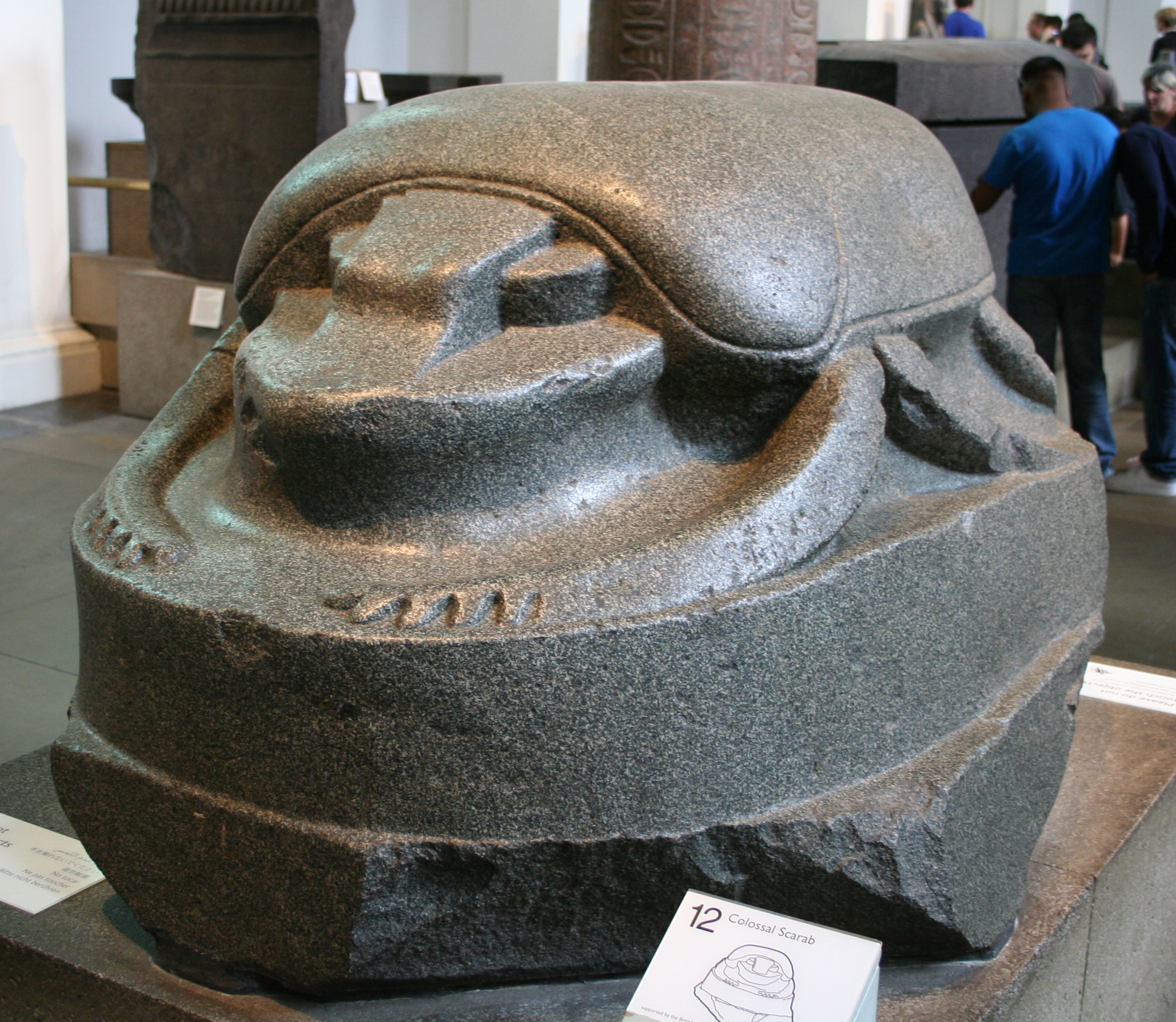 British Museum, London Egyptian scarab bought by Lord Elgin in Constantinople in 1800 (ref: Brian Cook, The Elgin Marbles, London, British Museum Publications Ltd, 1984, 72 p. (ISBN 978-0-7141-2026-3), p. 54)